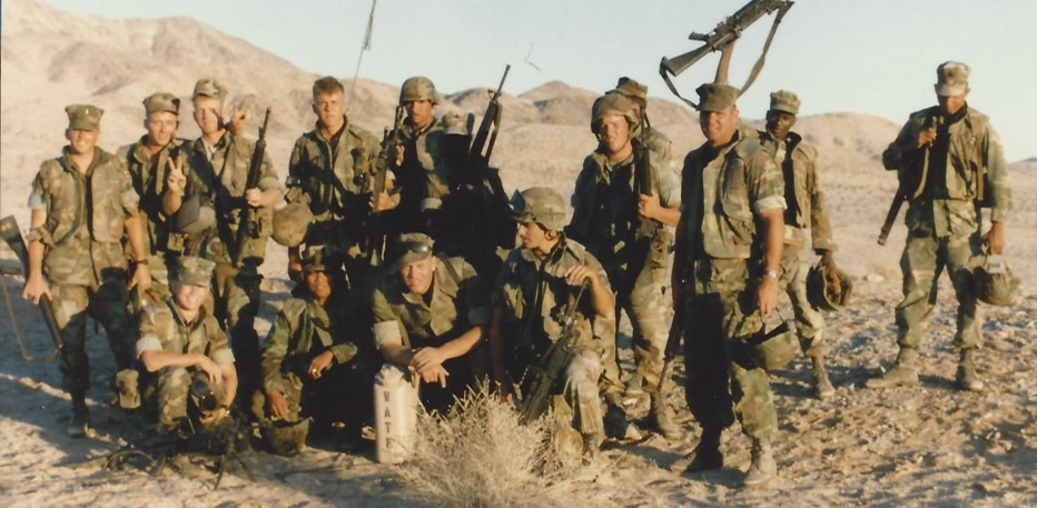 3rd Platoon, C/1/5 “The Goon Platoon” MCB Twentynine Palms 1985